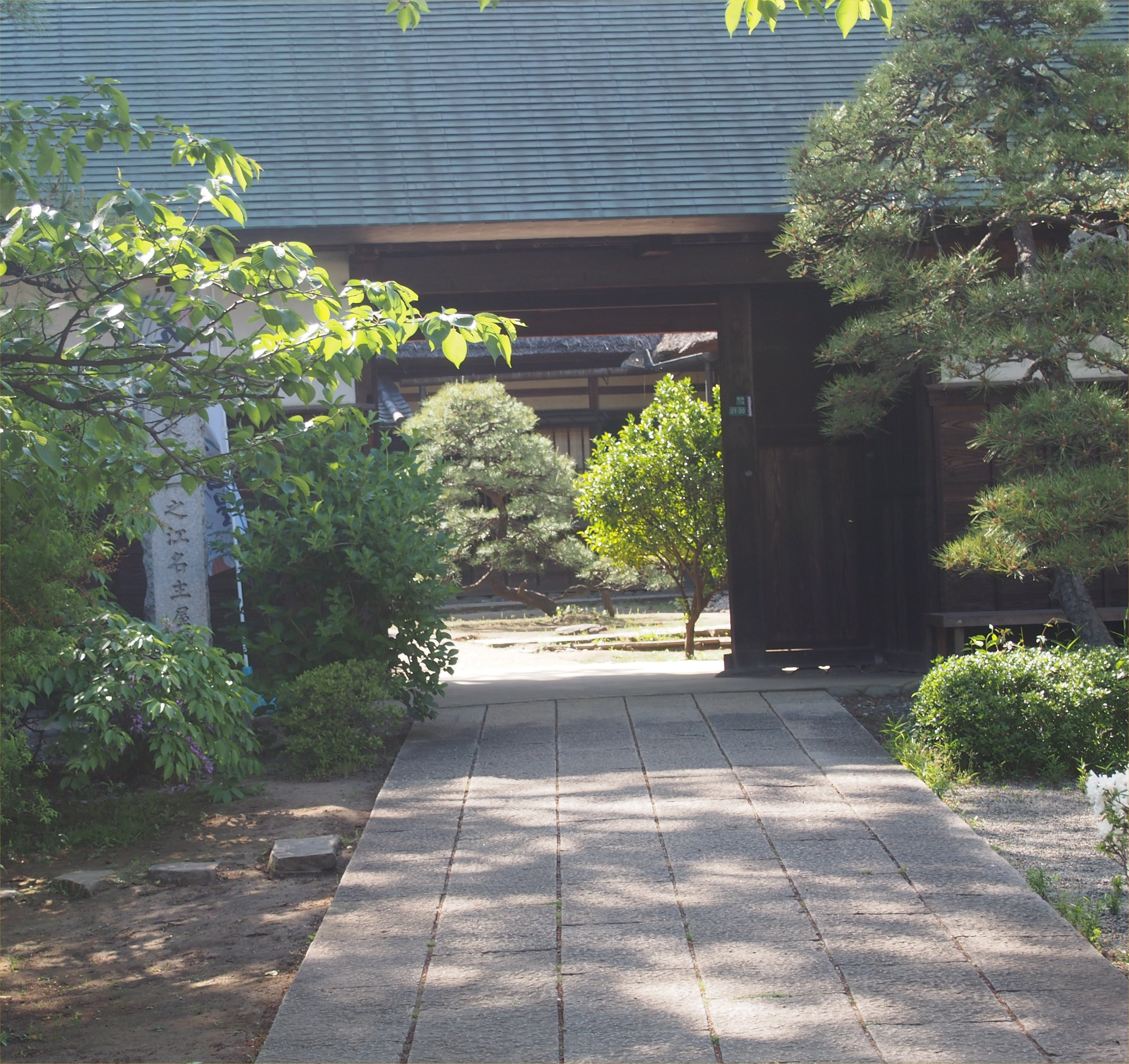 A photo of the main gate of Ichinoe House of the Village Headman(Nanushi),Haruecho,Edogawa-ku,Tokyo,Japan.